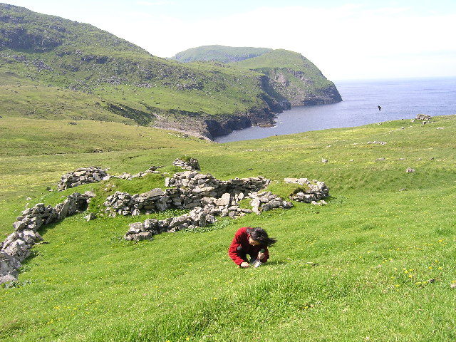 Dry stone bothy, Gleann Mor valley, Glen Bay, An Campar peninsula and Soay summit. Hirta, St Kilda